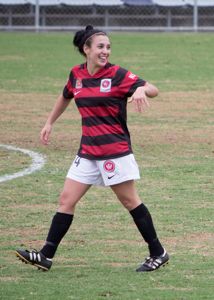 Trudy Camilleri Nov 2012 in Western Sydney Wanderers strip